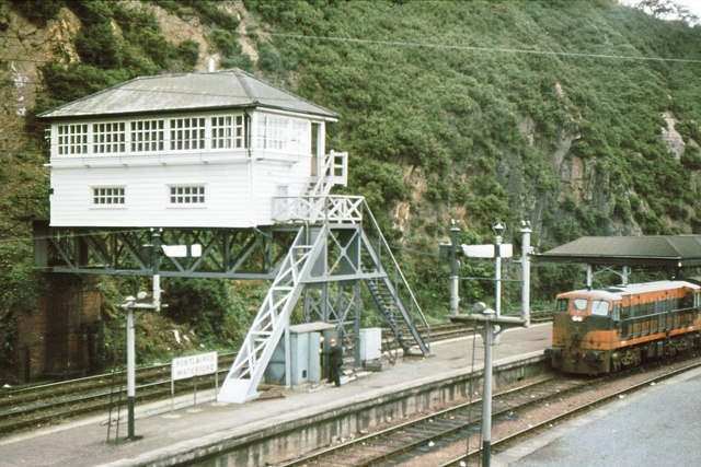 Waterford signalbox A most unusual elevated structure, positioned to give a view over the road bridge at the west end of the station.